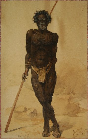 Portrait of Illawarra Aboriginal elder 'Tullimbah'